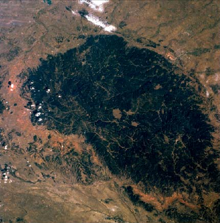 Black Hills of South Dakota from the Space Shuttle